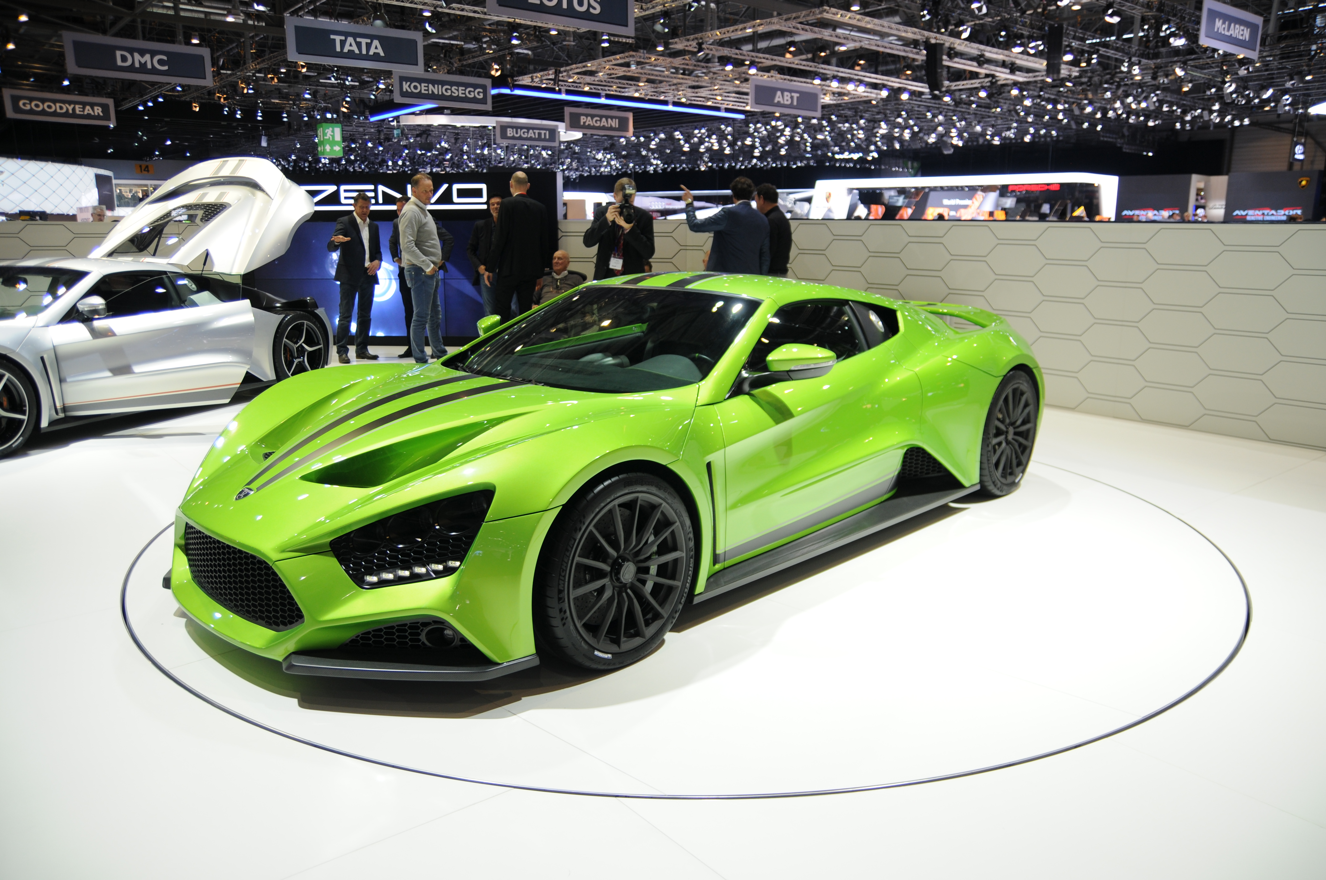 Geneva Motor Show 2015 (photo taken on the first press day)